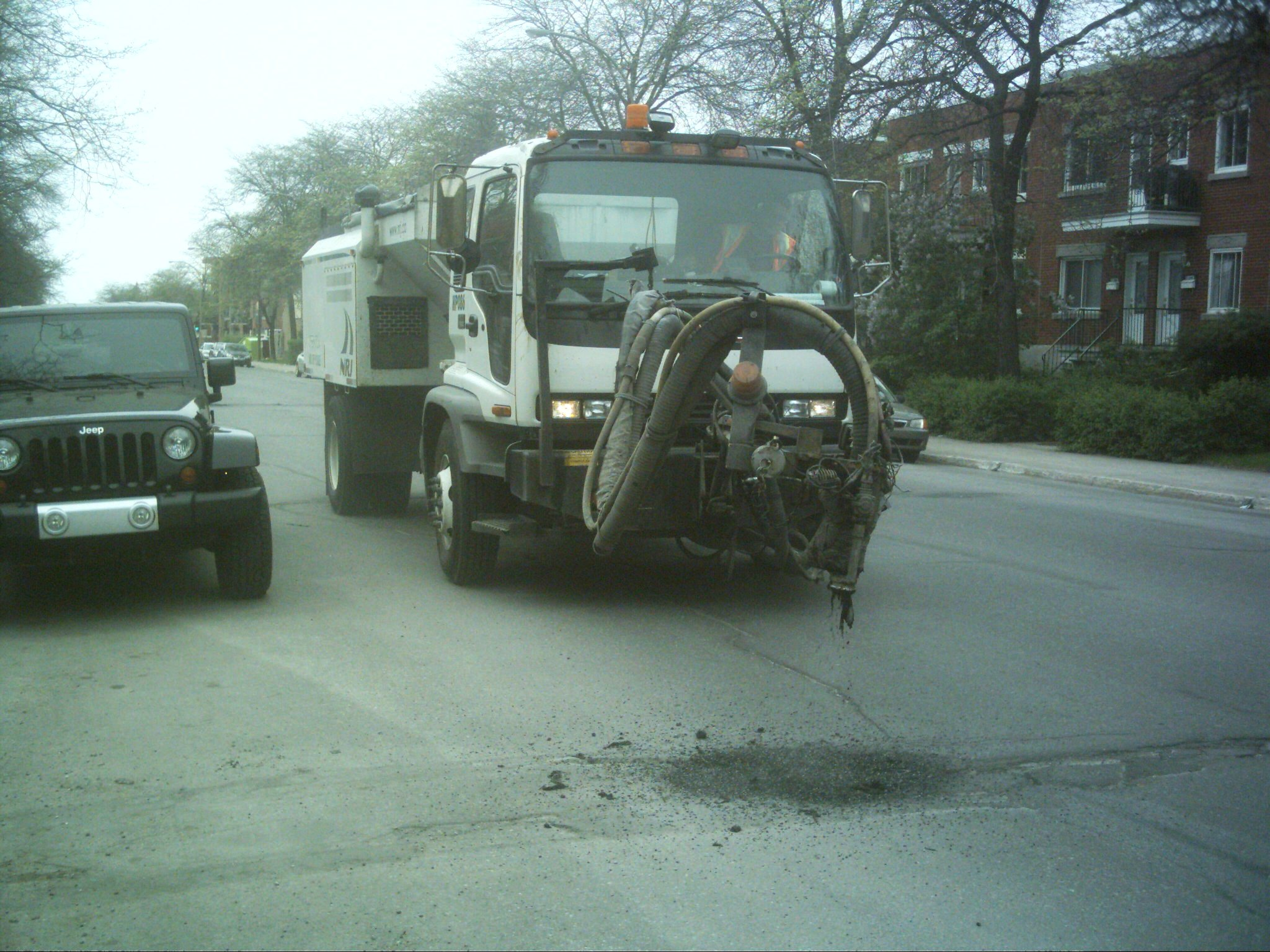 Potholes in Montreal